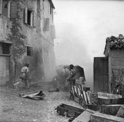 A British 17 pdr shelling the village of Gemmano near Rimini.The enemy-held village of Gemmano had a commanding position overlooking allied lines of communication, and the Germans fought fiercely to hold this strongpoint. There was heavy shelling and counter-shelling around the village.